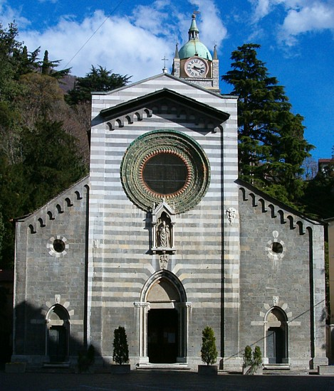 The church Ss Nazaro e Celso in Bellano Picture taken by user:Idéfix, march 2004